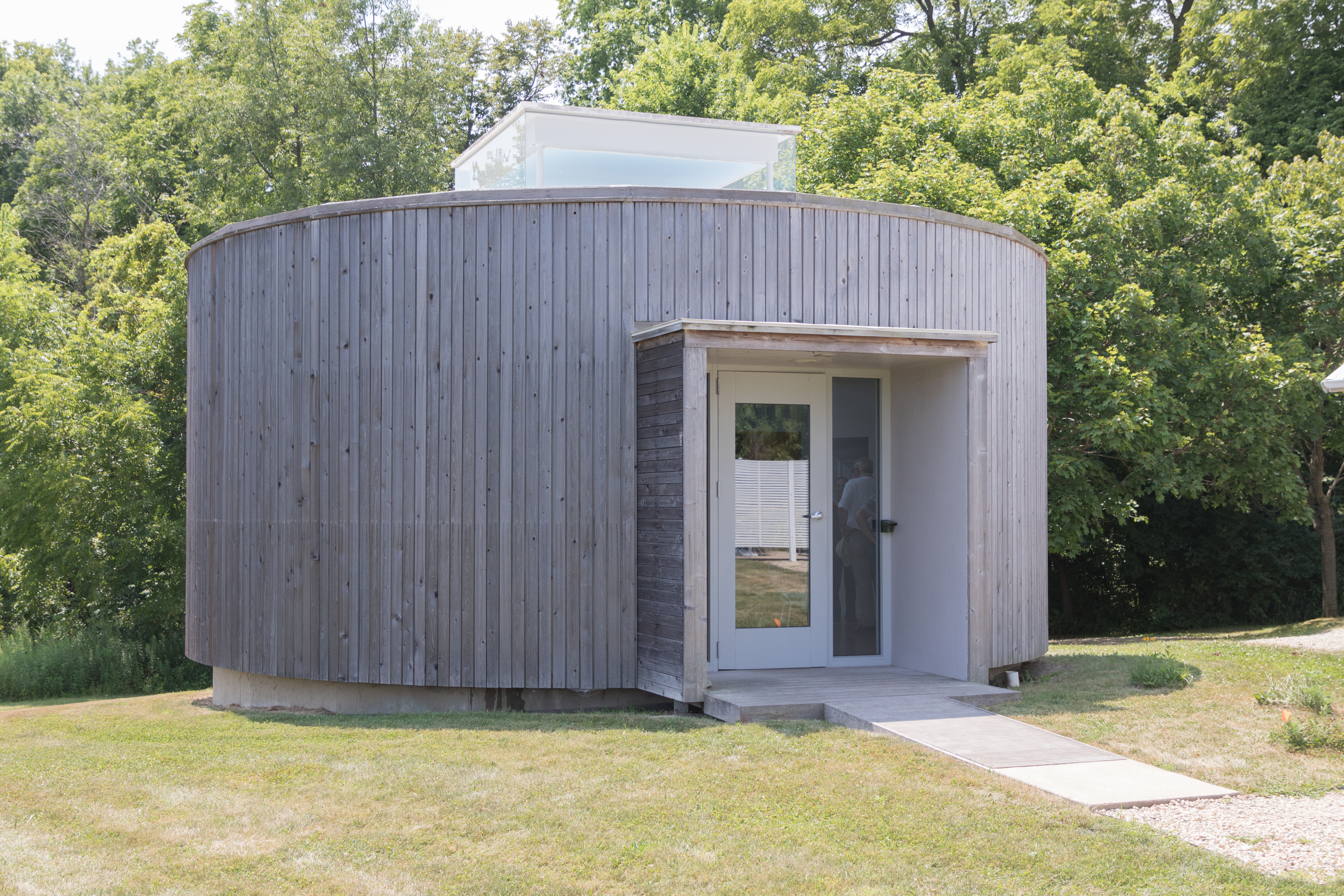 Barnsworth Gallery at Farnsworth House, Plano, Illinois.